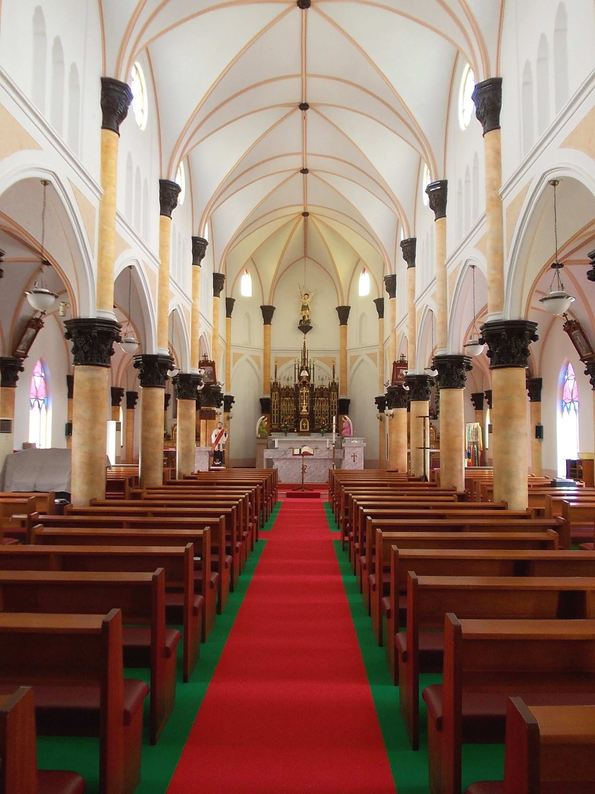 The inside of Hirado Catholic Church, Hirado City, Nagasaki, Japan